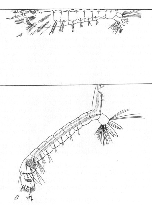 Feeding positions of mosquito (family Culicidae) larvae: A, Anopheles (subfamily Anophelinae); B, Culex (subfamily Culicinae)